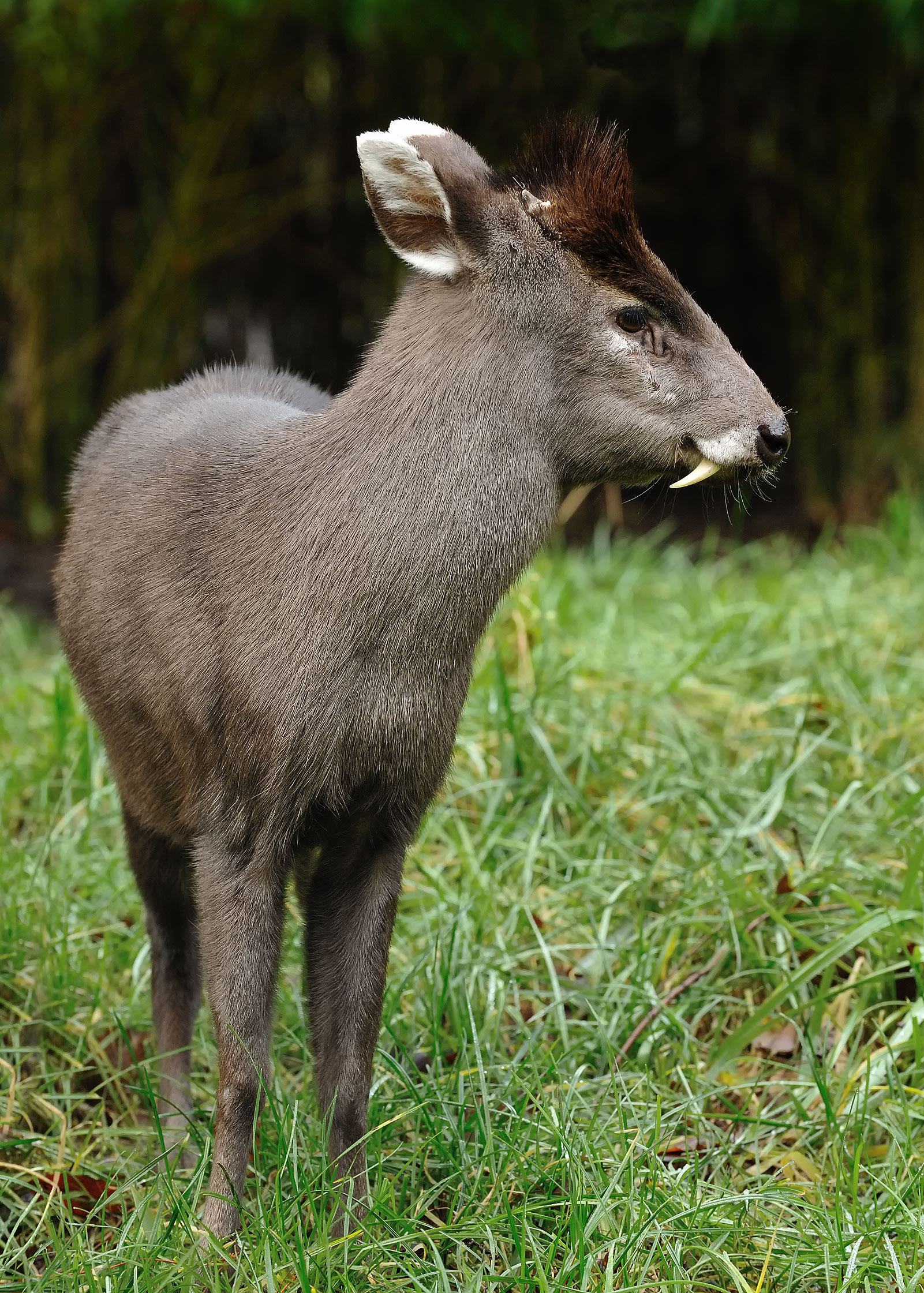 Tufted Deer (Elaphodus cephalophus), mature male with small tusks